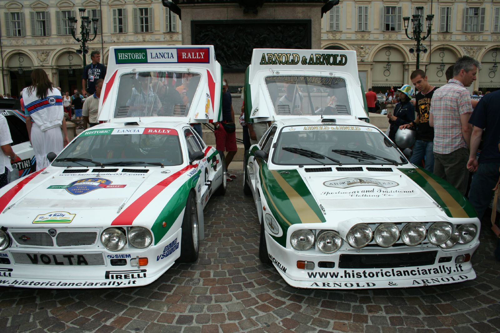 Lancia Rally 037s at the Lancia centenary celebrations in Turin in 2006.